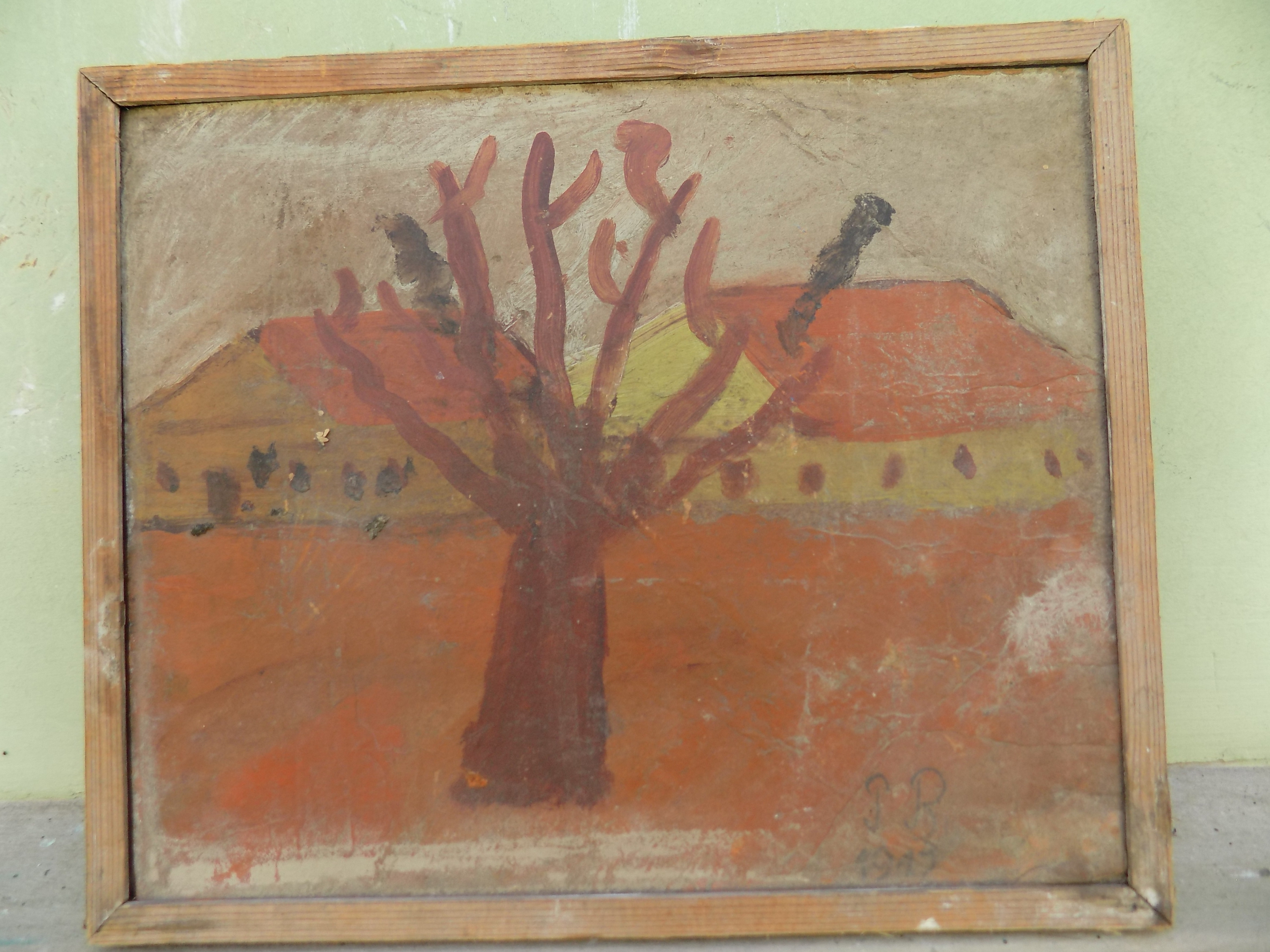 Painting by Bela Pehan (when he was a little boy) "Child painting", tempera on cardboard, 1913, 21 × 26